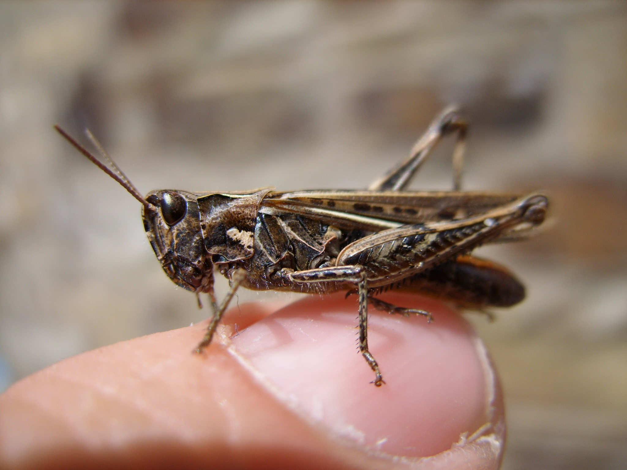 Photo taken in my garden